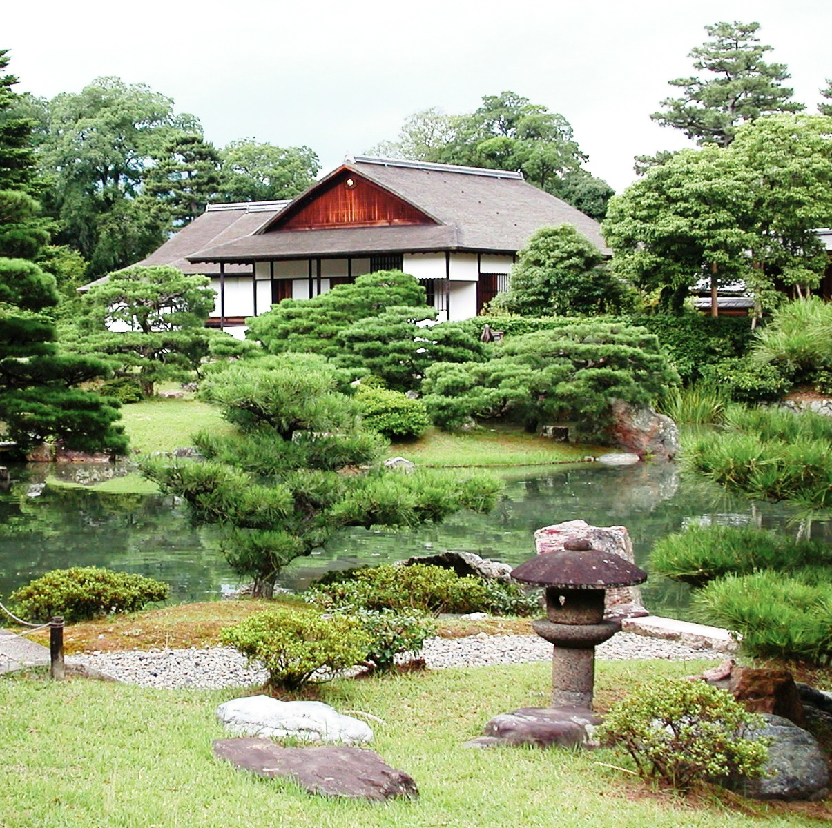 Katsura Imperial Villa 桂離宮 【Gaia Walker Slide Show Demonstration】